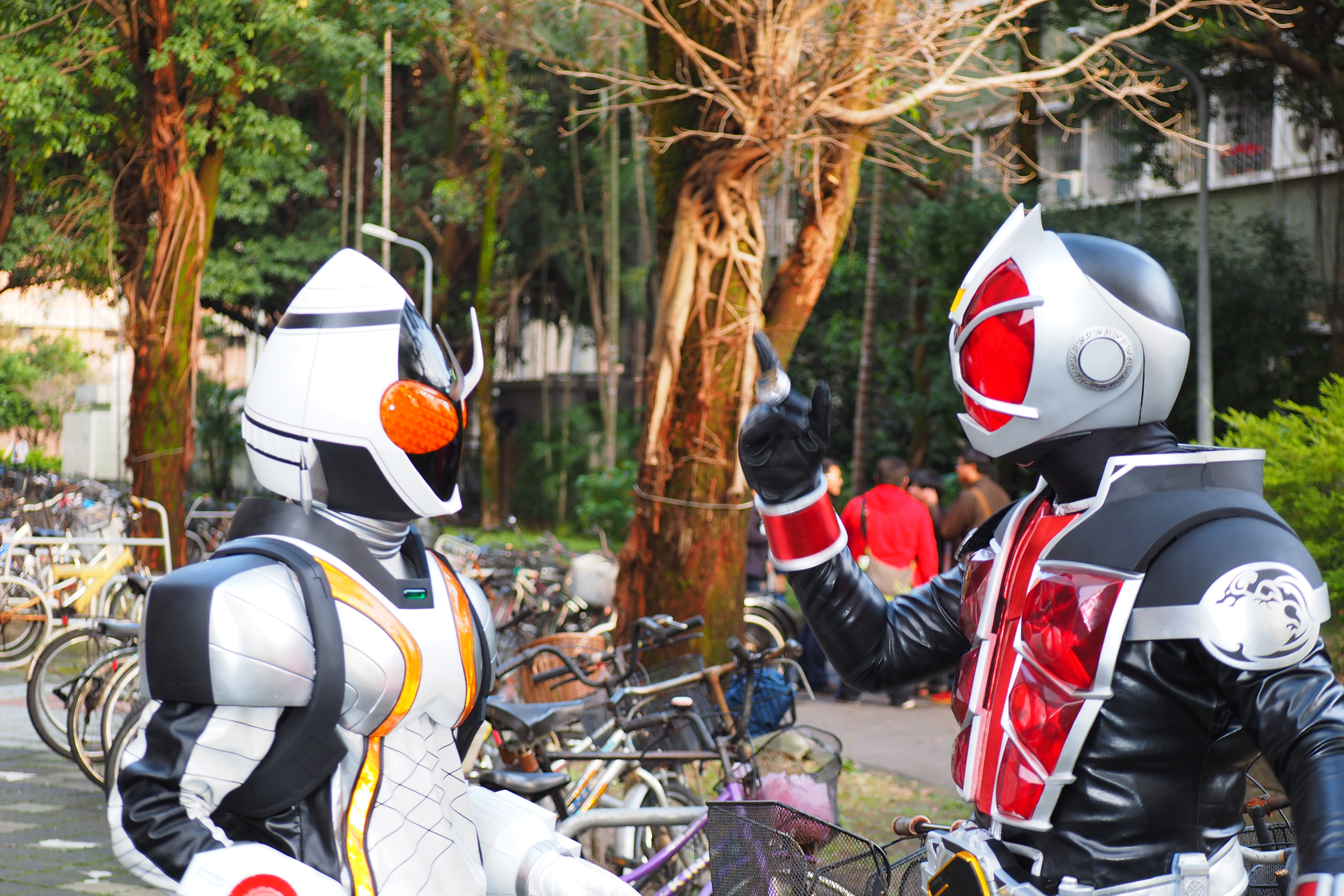 Fancy Frontier 23 Fancy Frontier 23